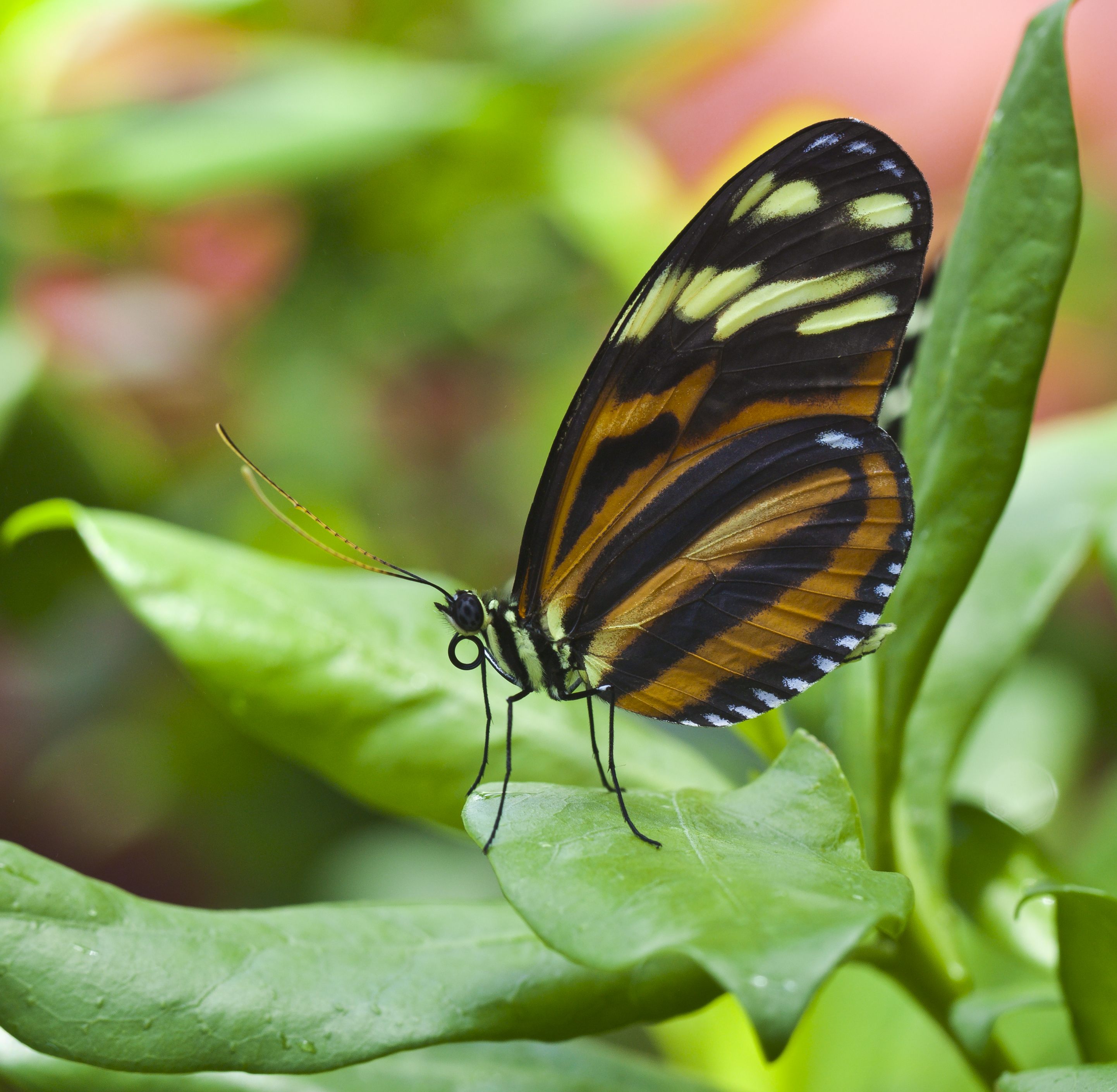 Heliconius ismenius, Munich Botanic Garden, Germany